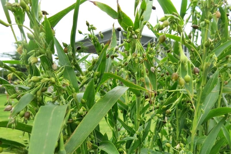 Yulmu (Coix lacryma-jobi var. ma-yuen) plants at Hanbat Arboretum, Daejeon, Korea